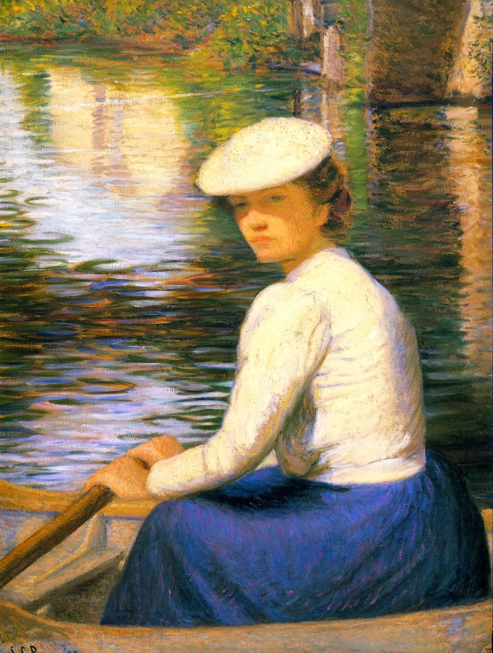 In a Boat